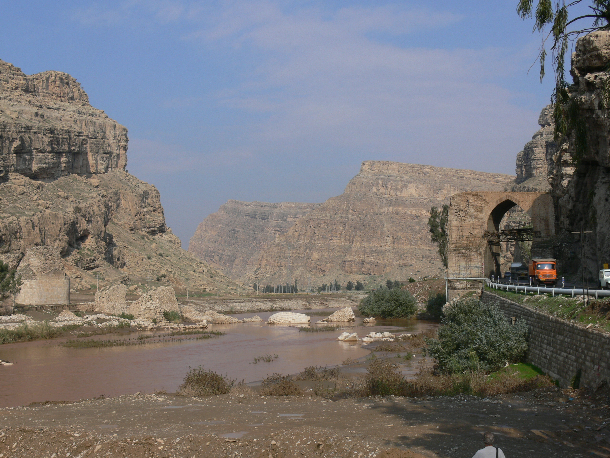 Pol-e Dokhtar bridge in Lorestan (Iran)